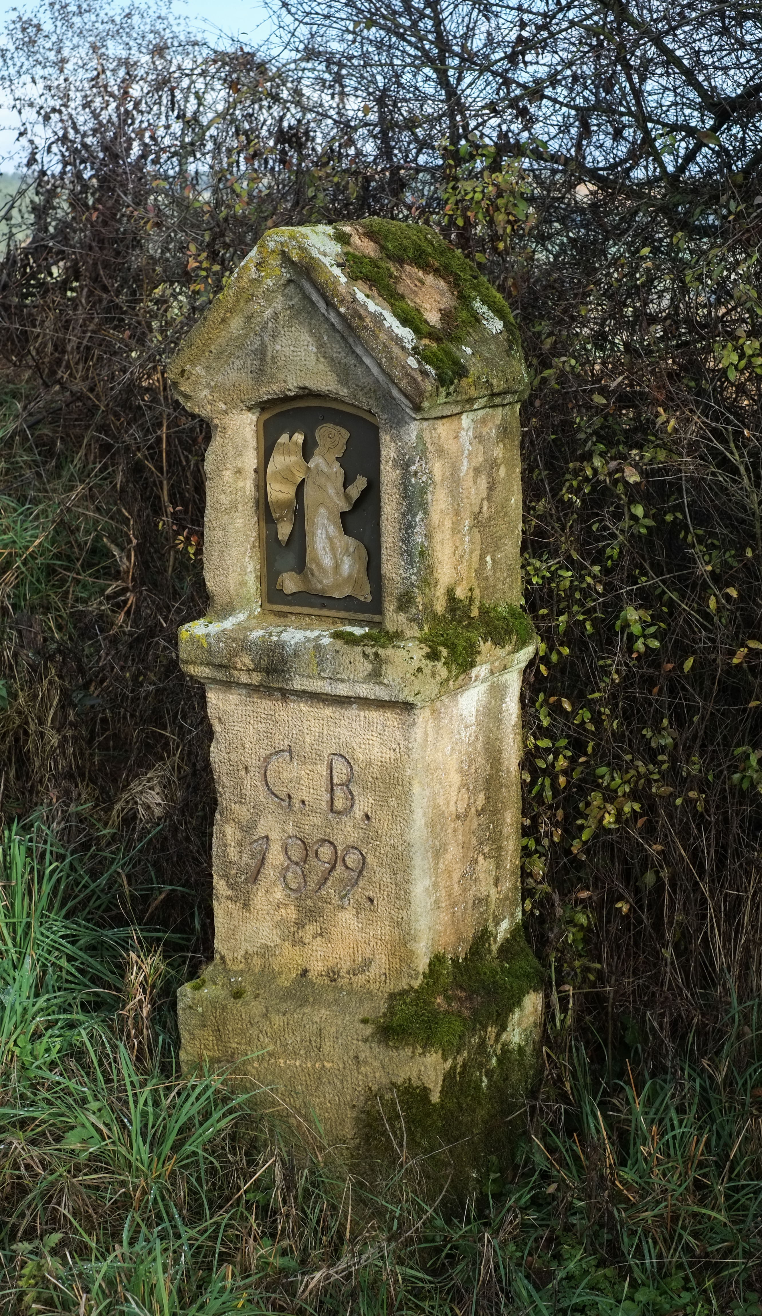 Wayside shrine, 1899, Hirschau-Ebenhof, Bavaria, Germany Bognermarterl, von Georg Bogner errichtet, der hier ein Unglück überlebte